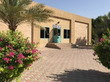 The ISG Dhahran Campus Cafetirea